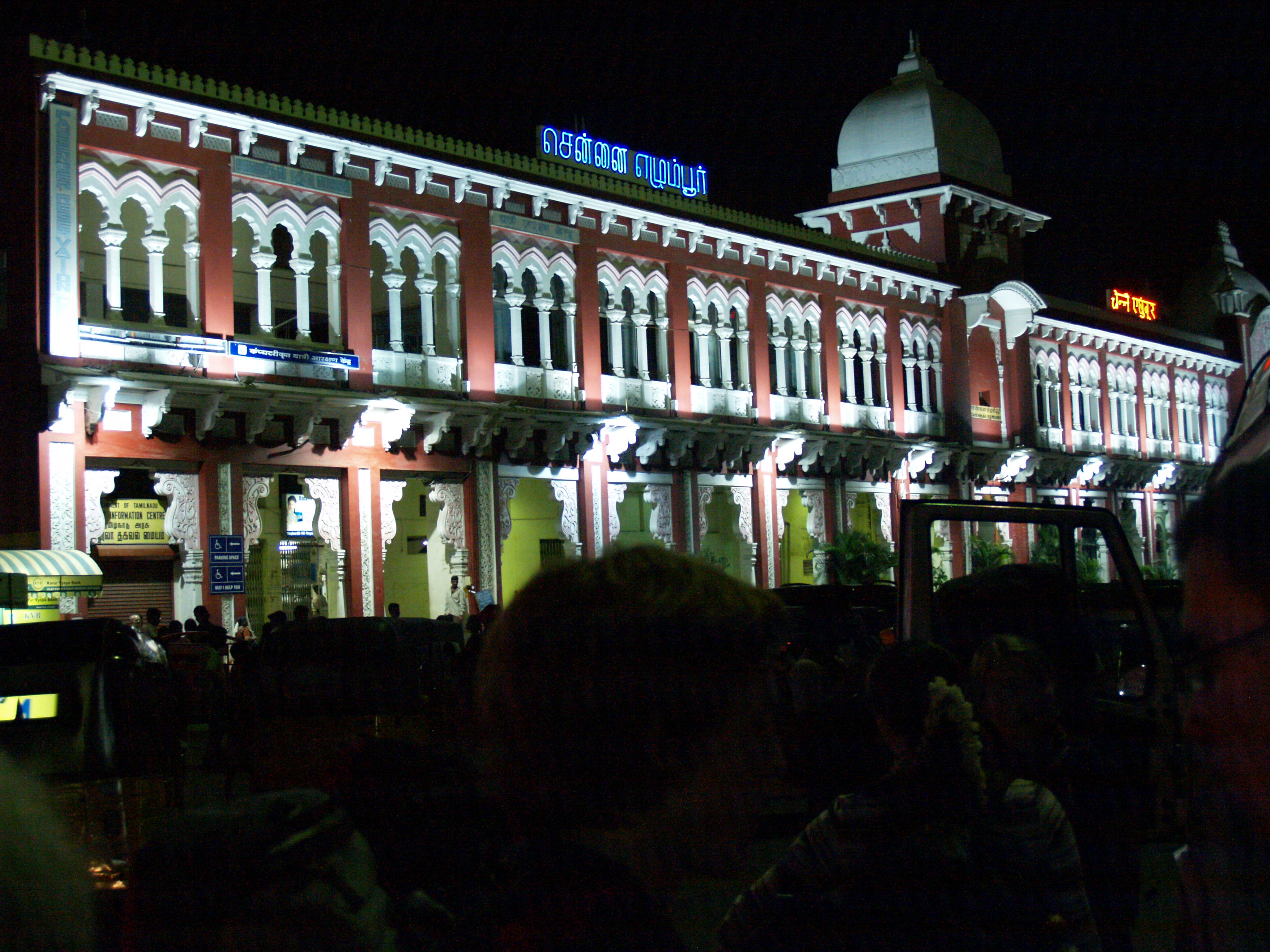 Railway station Chennai Egmore